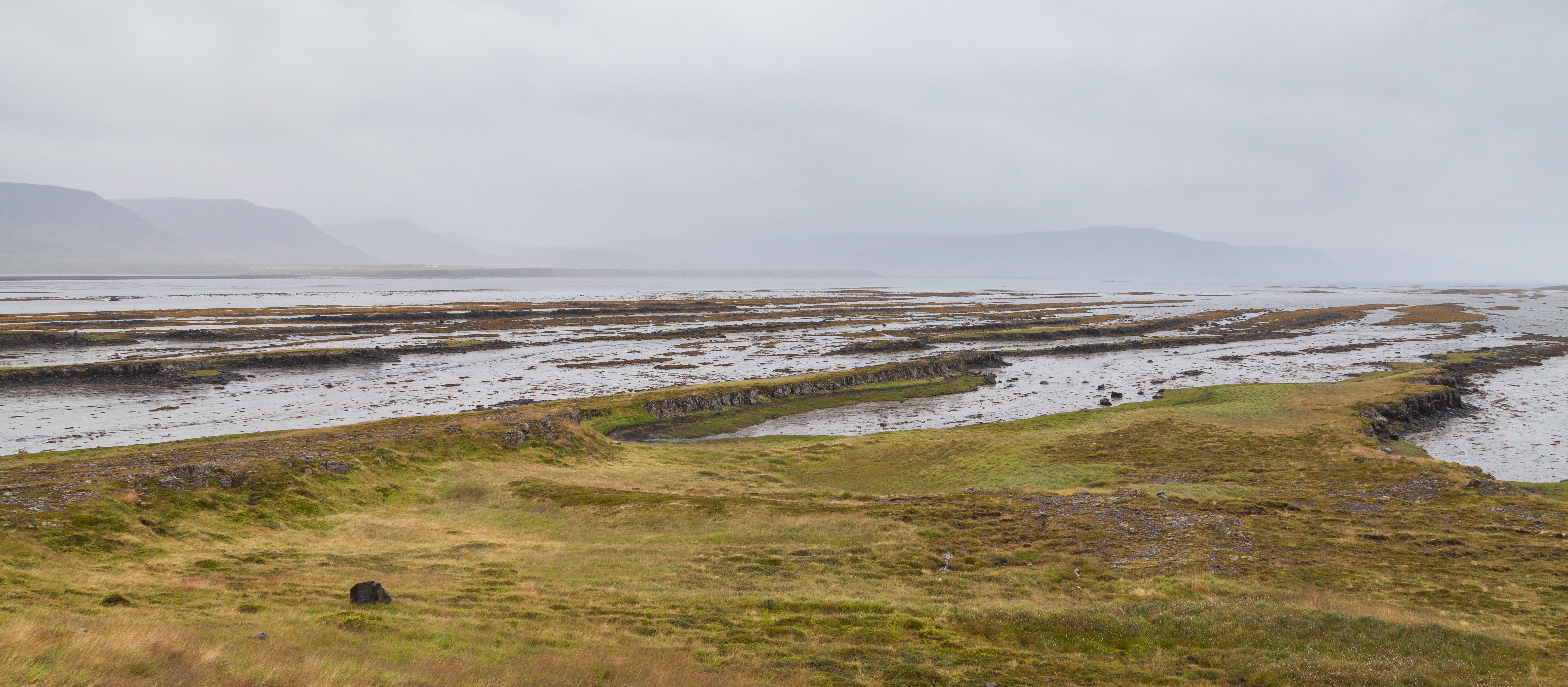 Hrútafjörður, Vestfirðir, Iceland